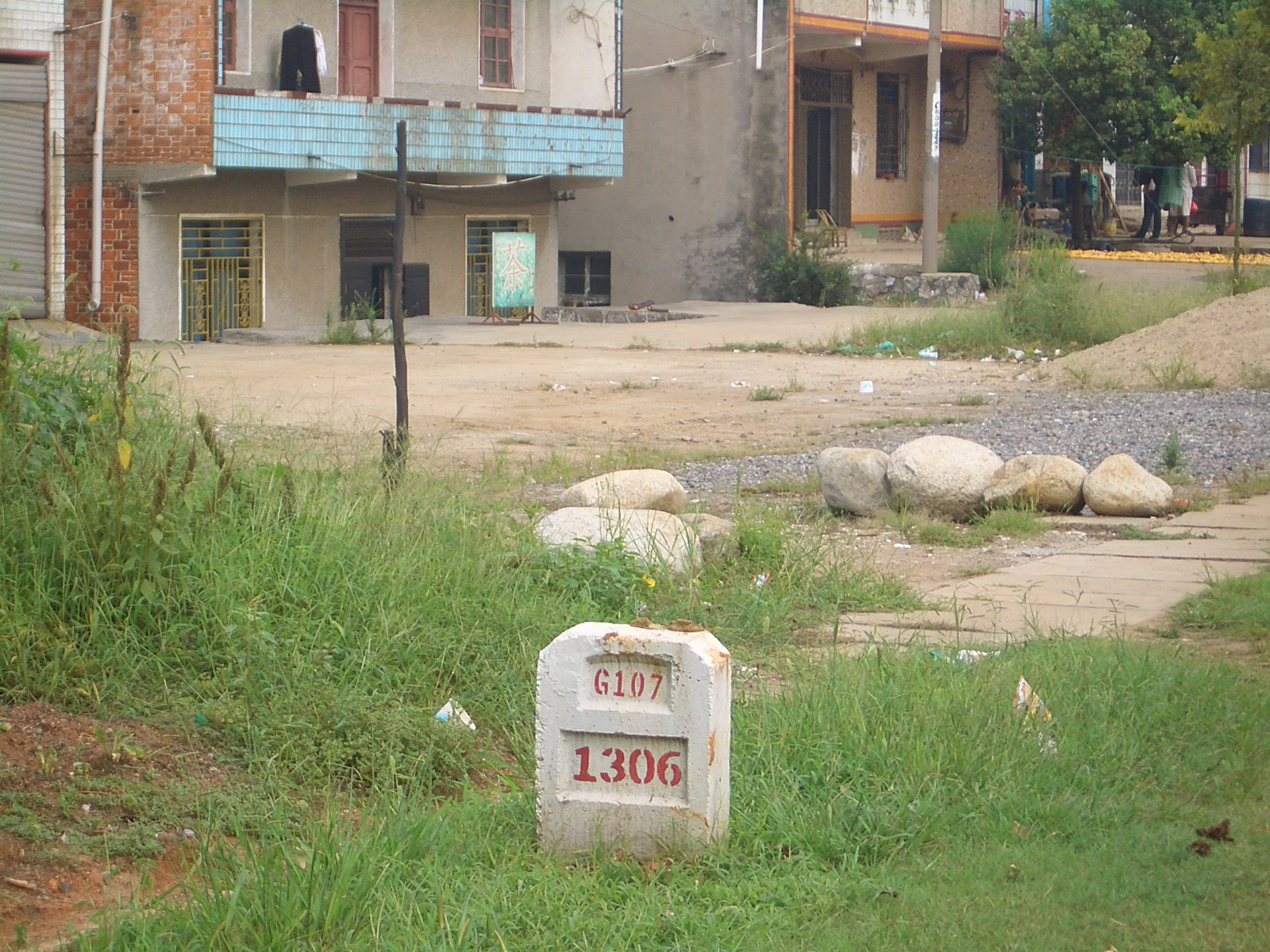 A kilometer marker (1306 km from Beijing) on National Highway 107 (G107) in Heshengqiao Zhen, just a kilometer or two into Xianning Shi if coming from Wuhan.